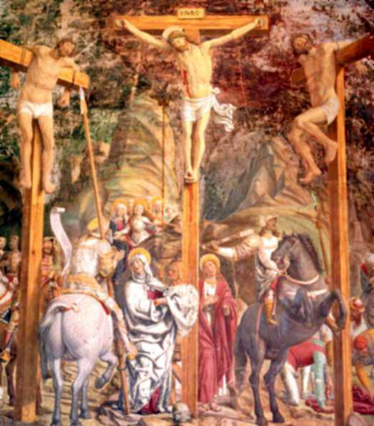 Giovanni Martino Spanzotti, "Crucifixion", ca 1486-91, fresco, scene from the large dividing wall of the convent church of San Bernardino, Ivrea, Italy.